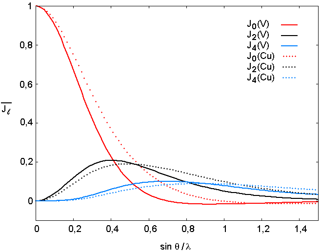 Radial integrals J 0 ¯ {\displaystyle {\overline {J_{0 (red), J 2 ¯ {\displaystyle {\overline {J_{2 (black) and J 4 ¯ {\displaystyle {\overline {J_{4 (blue) for vanadium(IV) (plain lines) and copper(II) (dotted lines), from which the magnetic neutron form factors can be calculated. Graph made from the data published in International Tables for Crystallography, vol. C: Mathematical, physical and chemical tables, Kluwer Academic Publishers, 1999, 2nd ed. (1st ed. 1992) (ISBN 0-7923-5268-8), chap. 4.4 (« Neutron techniques »), p. 445-452